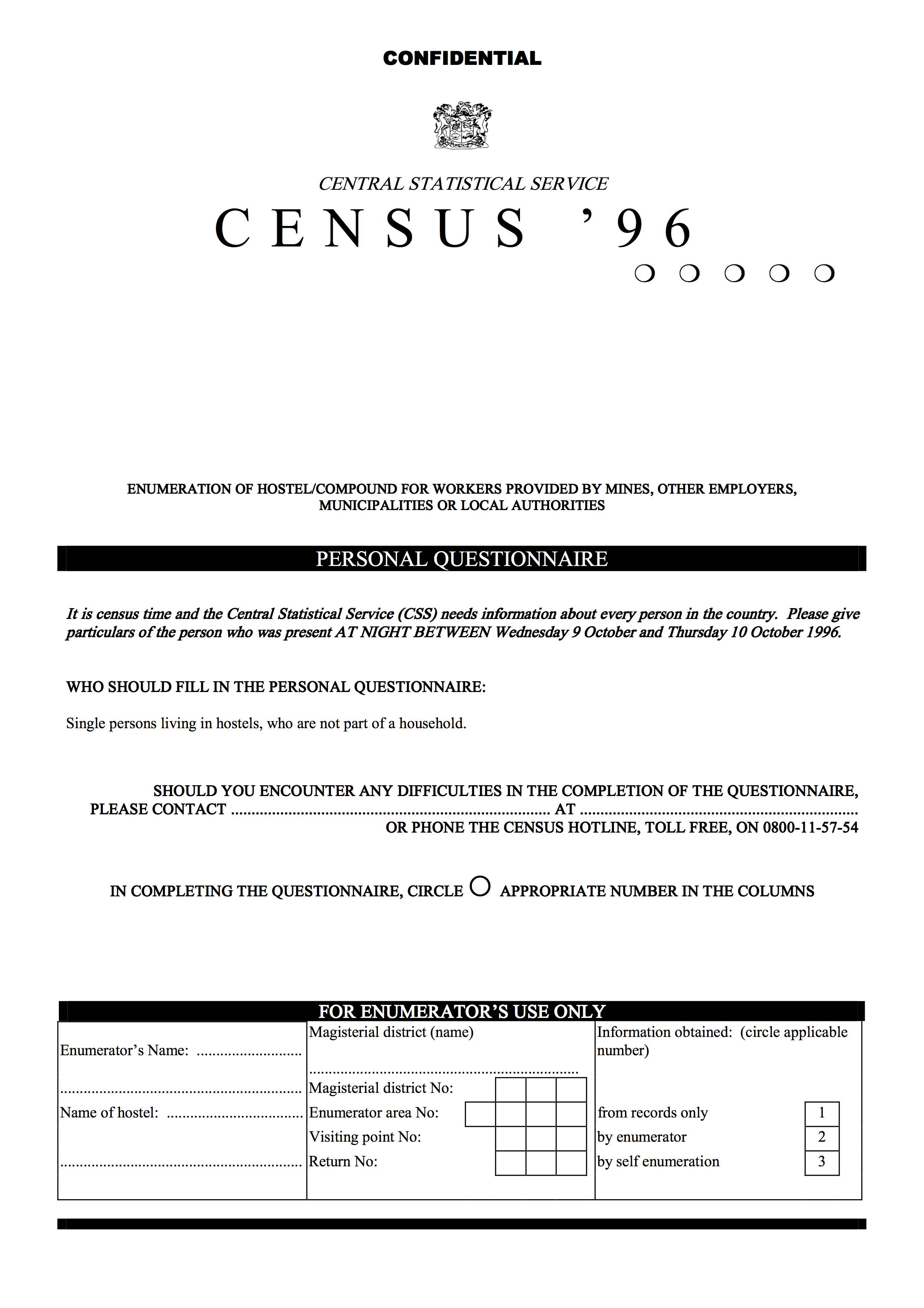 This is the cover page of the 2001 South African National Census institution questionnaire.